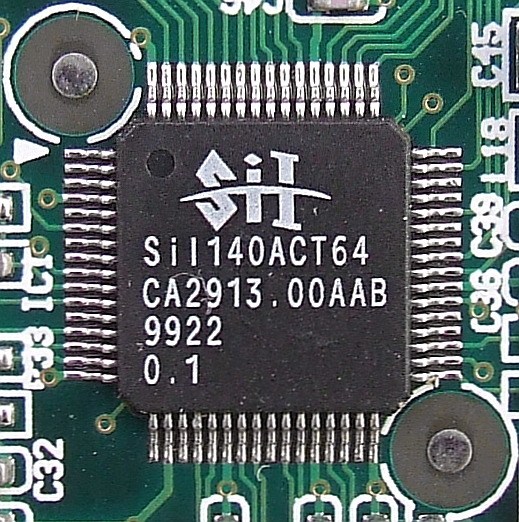 Silicon Image SiI140, a DVI-compliant PanelLink digital transmitter. It is also backwards-compatible with DFP and provides one such port on this ELSA Winner II-A32 Vi/DFP video card.